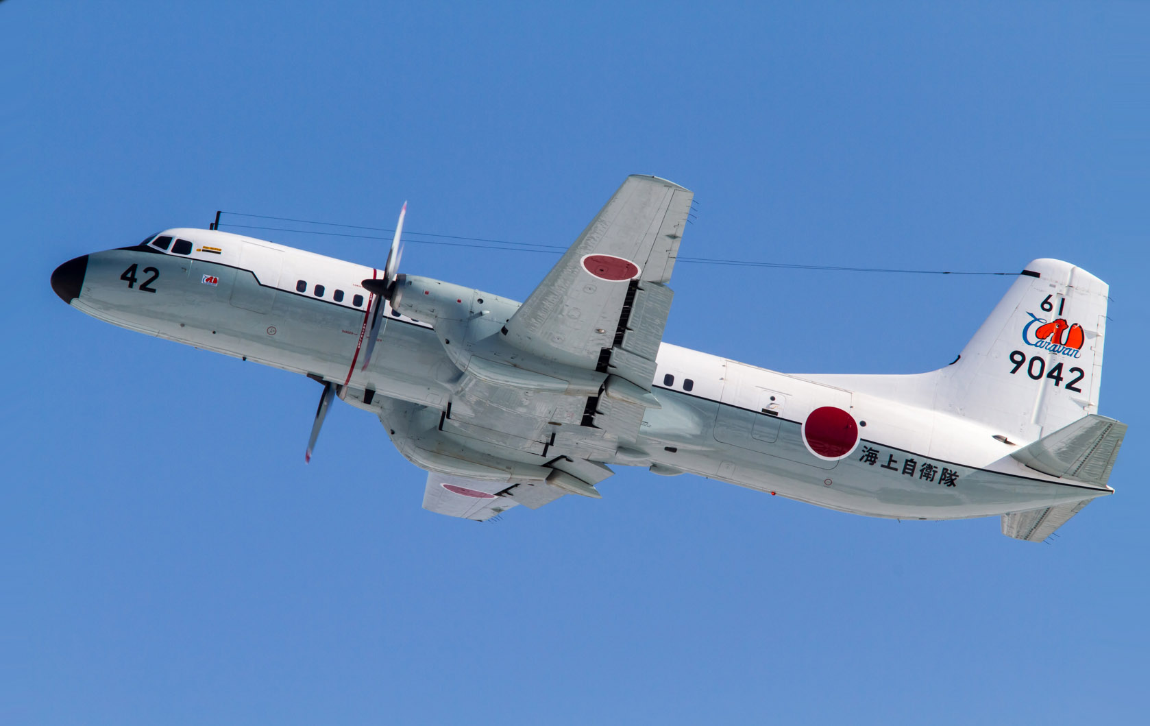 Aircraft: NAMC YS-11M(61-9042 s/n:2058) Squadron: JMSDF Fleet Air Force / 61SQ (海上自衛隊 航空集団直轄 第61航空隊） Base: Atsugi AB(RJTA) Kanagawa-ken, Japan 15/01/2013 Atsugi AB, Japan